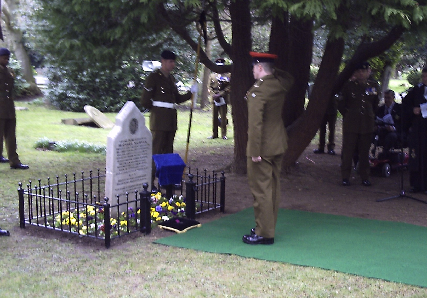 Trooper Jamie Howells, QLR, presents the Victoria Cross at the graveside of his GGGgf Michael Murphy